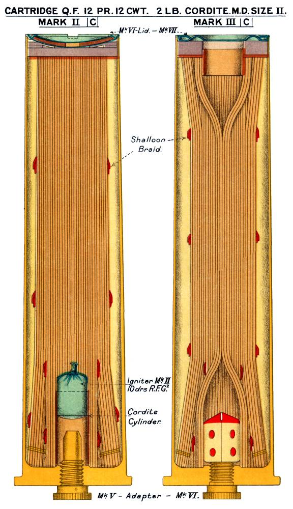 Diagram of British QF 12 pounder 12 cwt Cartridges, Mk II and Mk III, 1914. This shows the original separate-loading QF cartridge. Later cartridges were fixed QF. For use in the following guns :- QF 12 pounder 12 cwt naval gun QF 12 pounder 12 cwt AA gun Mark II : 2 lb Cordite M.D. size 11. The "Mk V Adapter" allows a V.S. (Vent Sealing) percussion or electric tube to be used for firing, replacing the original electric primer. It is used with cordite cylinder igniters. The "Mk II igniter" consists of 10 drams (10/16 oz) R.F.G. 2 powder in a cylindricsl shalloon bag, stitched to the inside of a cordite cylinder 4 inches long x 1 inch diameter. Mark III : 2 lb Cordite M.D. size 11. The "Mk VI Adapter" allows V.S. (Vent Sealing) percussion or electric tube to be used for firing, replacing the original electric primer. It is used with metal igniters. The "Mk I igniter" consists of a flanged metal thimble and a hexagonal sheet brass container, sides pierced with flash holes, lined witrh paper, contains 1/2 oz (8 drams) R.F.G. 2 powder (a form of gunpowder).